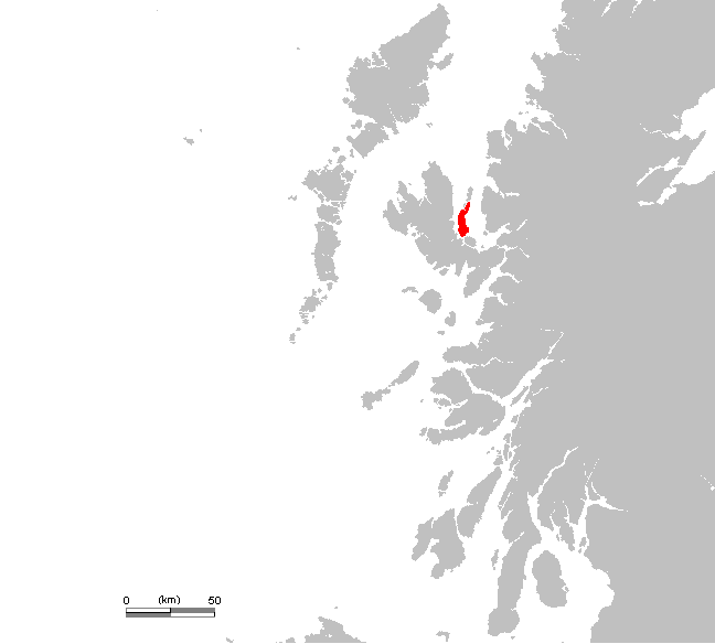 UK Raasay.PNG (Scotland, Hebrides)